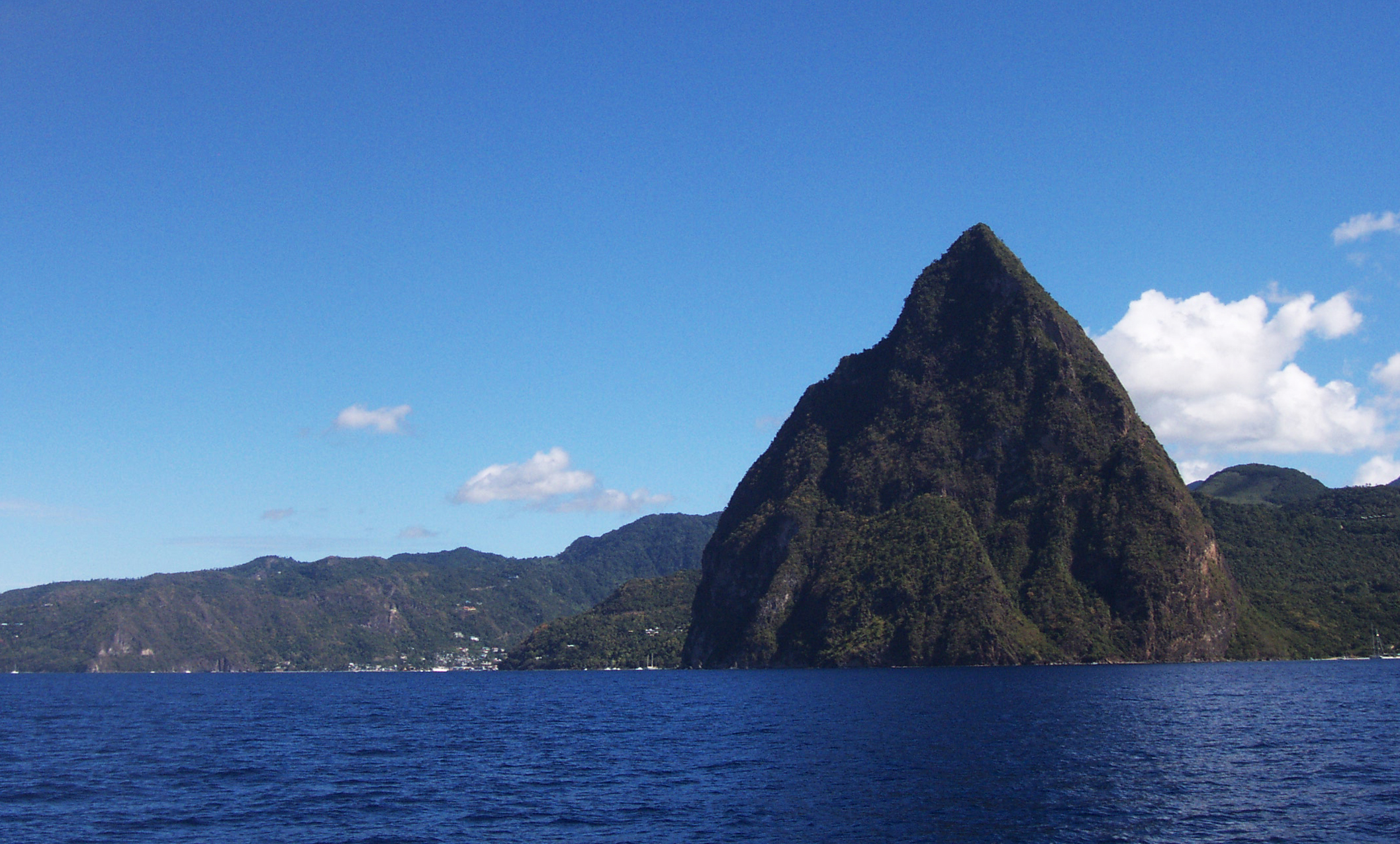 Description =Sainte Lucie Grenadines Source =Photo taken by Remi Jouan Date =Dècembre 2003 Author =Remi Jouan